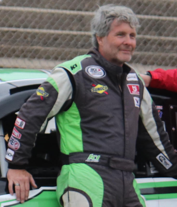 ARCA driver Tommy Vigh Jr. at Madison International Speedway.